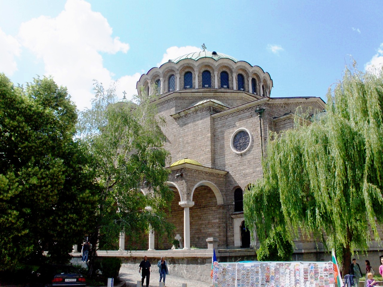 St. Nedelya Church in Sofia, Bulgaria. Photo taken by User:Alma mater, modified on August, 2, 2006. Licensed under the GFDL and Creative Commons-2.5,2.0,1.0.